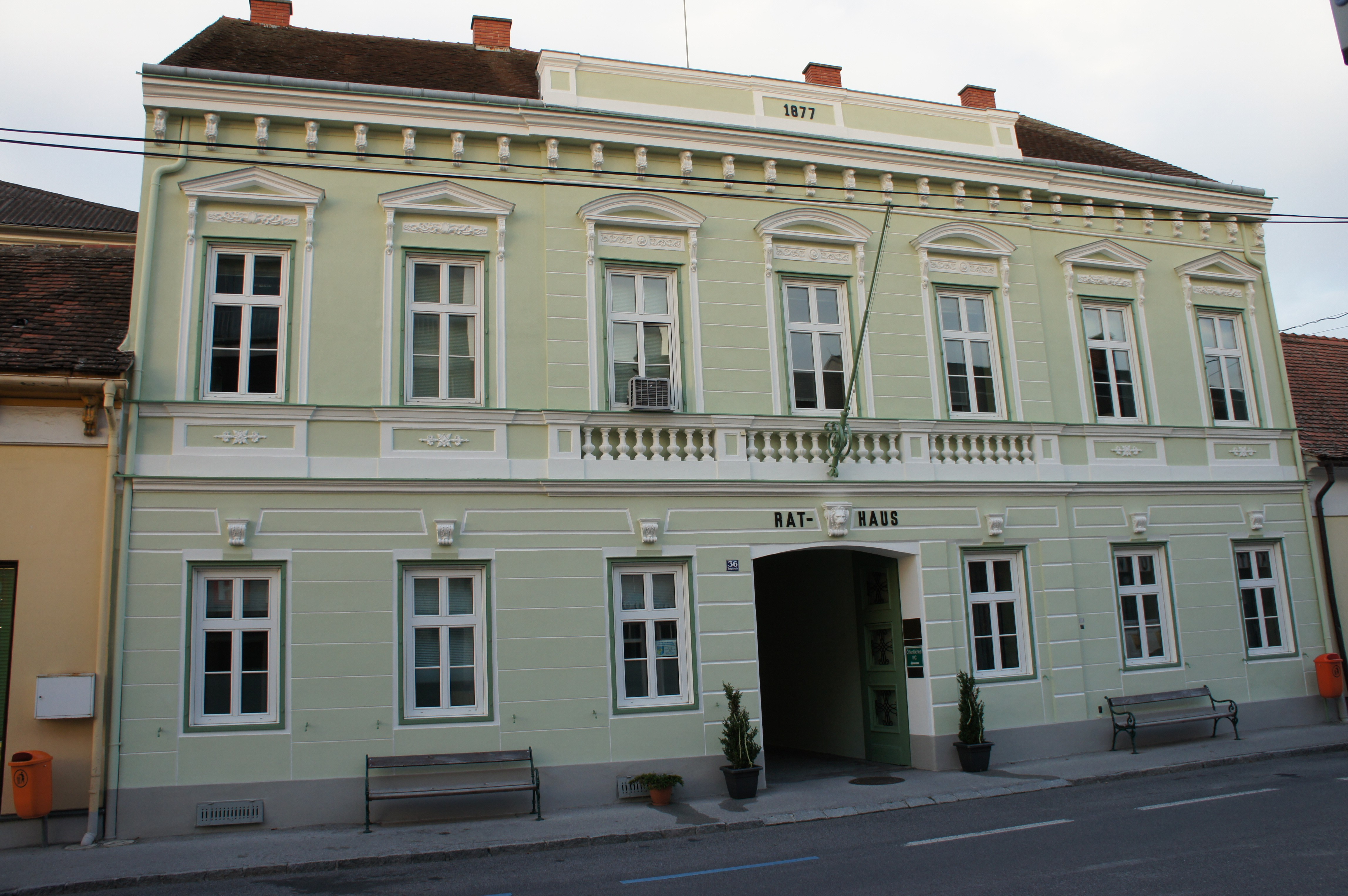 Town hall, Großpetersdorf, Austria